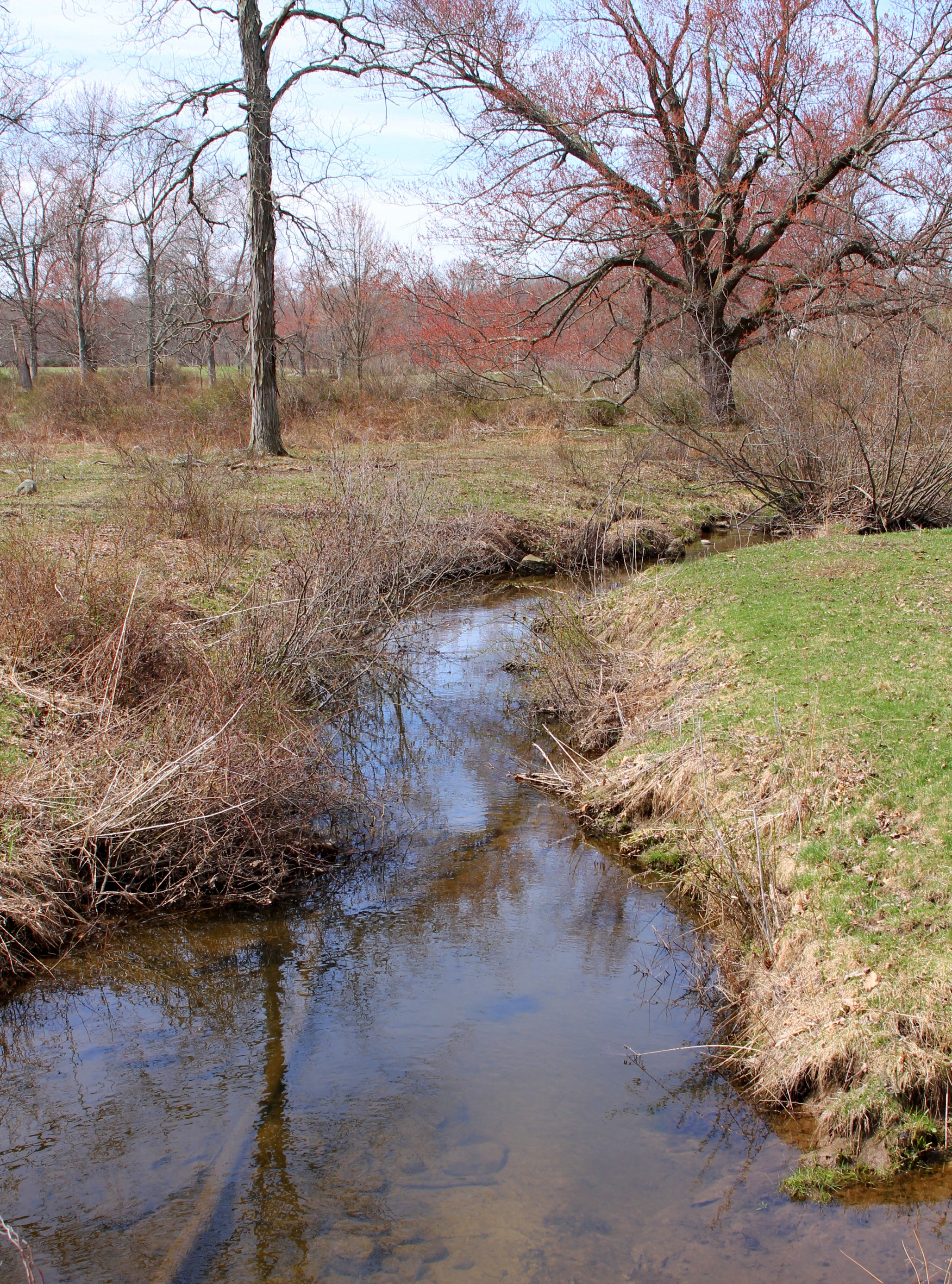 Walker Run looking downstream from Market Street